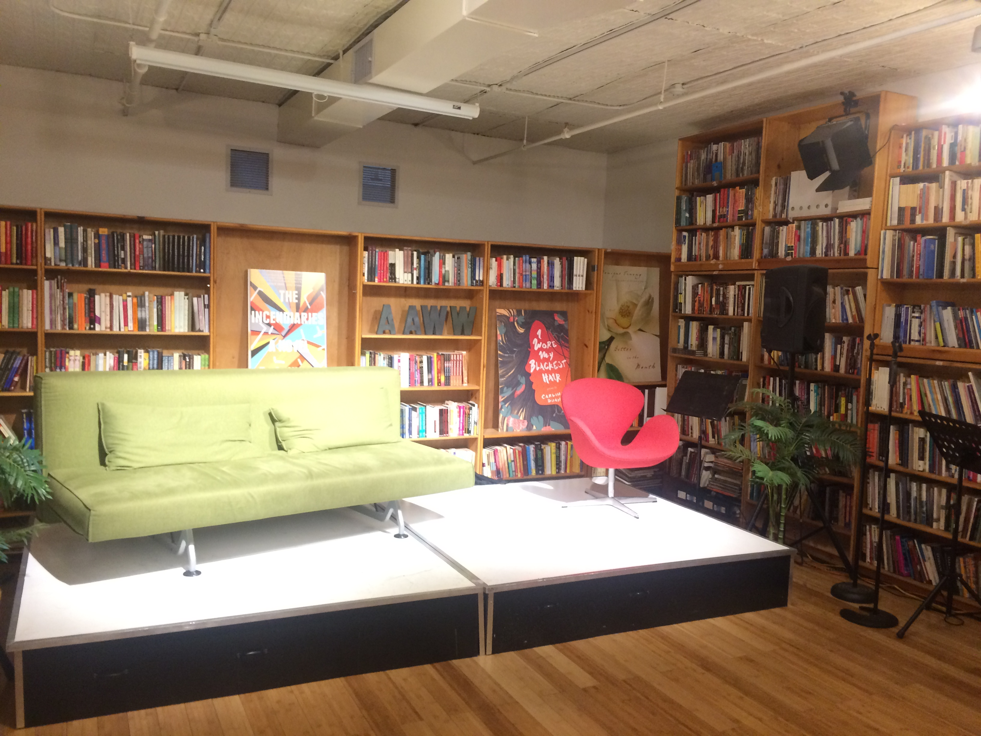 Meeting room at the Asian American Writers' Workshop at 112 West 27th Street.